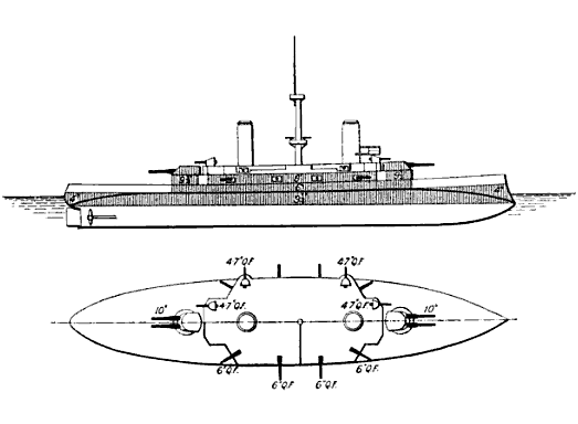 Line-drawing of the Italian battleship Ammiraglio di Saint Bon